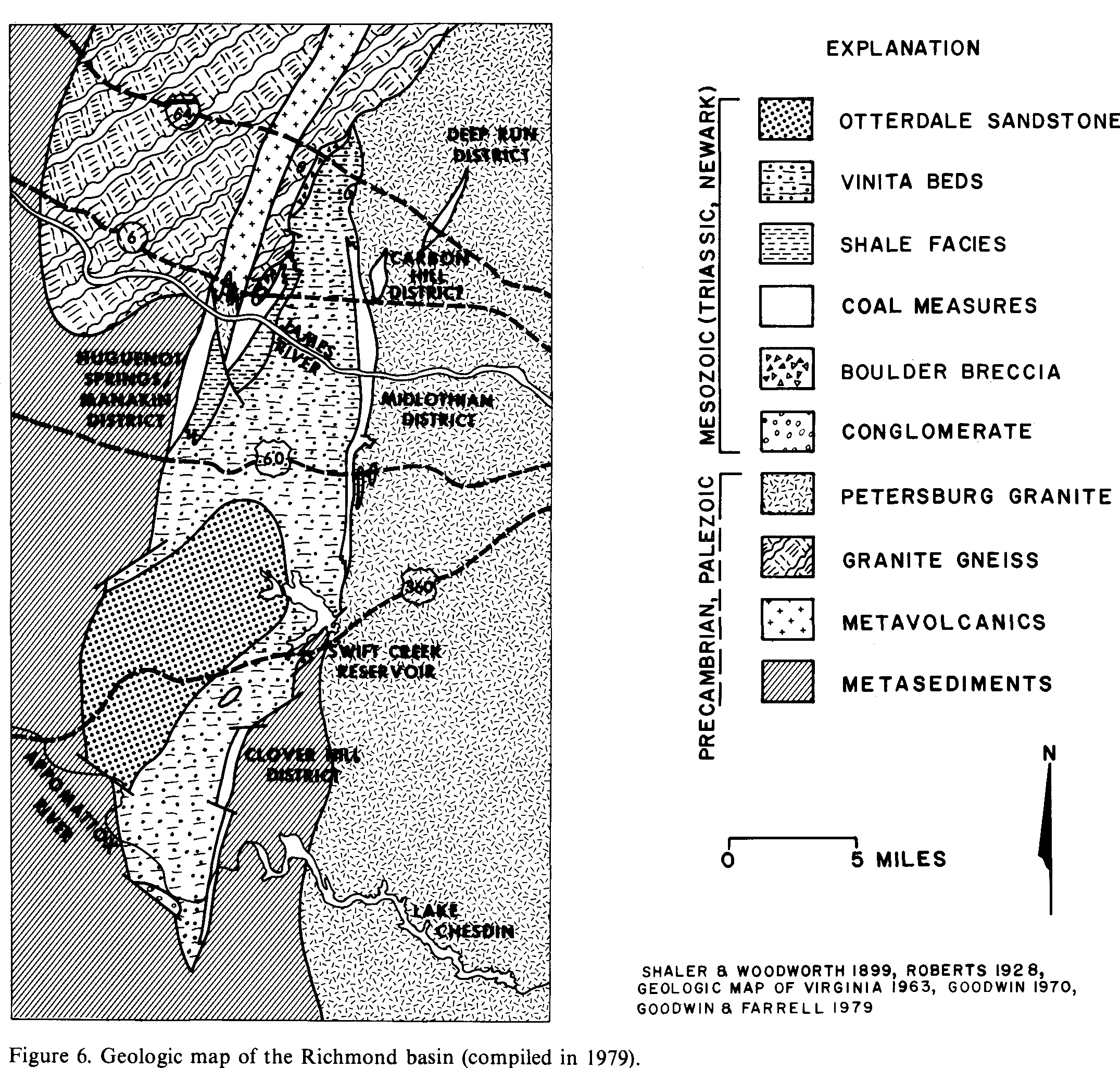 Richmond Basin Geological Diagram from MINING HISTORY OF THE RICHMOND COALFIELD OF VIRGINIA